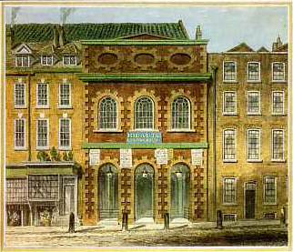 A reproduction as a postcard of the Italian Opera House (King's Theatre), built by John Vanbrugh, at the Haymarket before it was destroyed by a fire on 17 June 1789. The original print was earlier published in Charles John Smith's Historical and Literary Antiquities,[1] Messrs Bernard Quaritch, Ltd.[2] The book and print was republished as: Smith, Charles John (1875) Historical and Literary Curiosities, London: Chatto and Windus, Piccadilly, pp. Plate 97 Retrieved on 10 February 2011. The original print measures 18 cm x 21.3 cm and is under the H. R. Beard Collection F94-14. TM 376. Victoria and Albert Museum, London